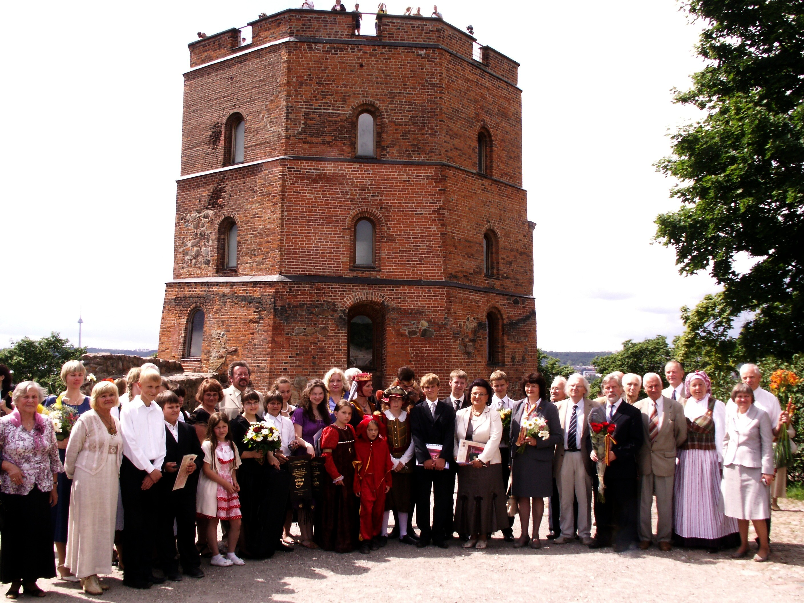 Laureates of Queen Morta award, 2009, Lithuania